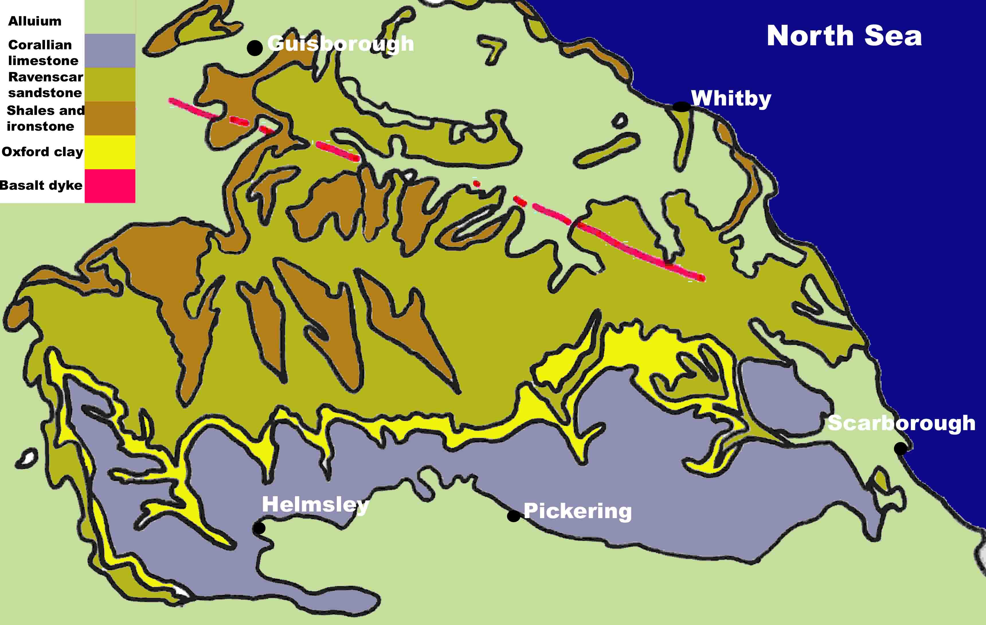 Image Notes